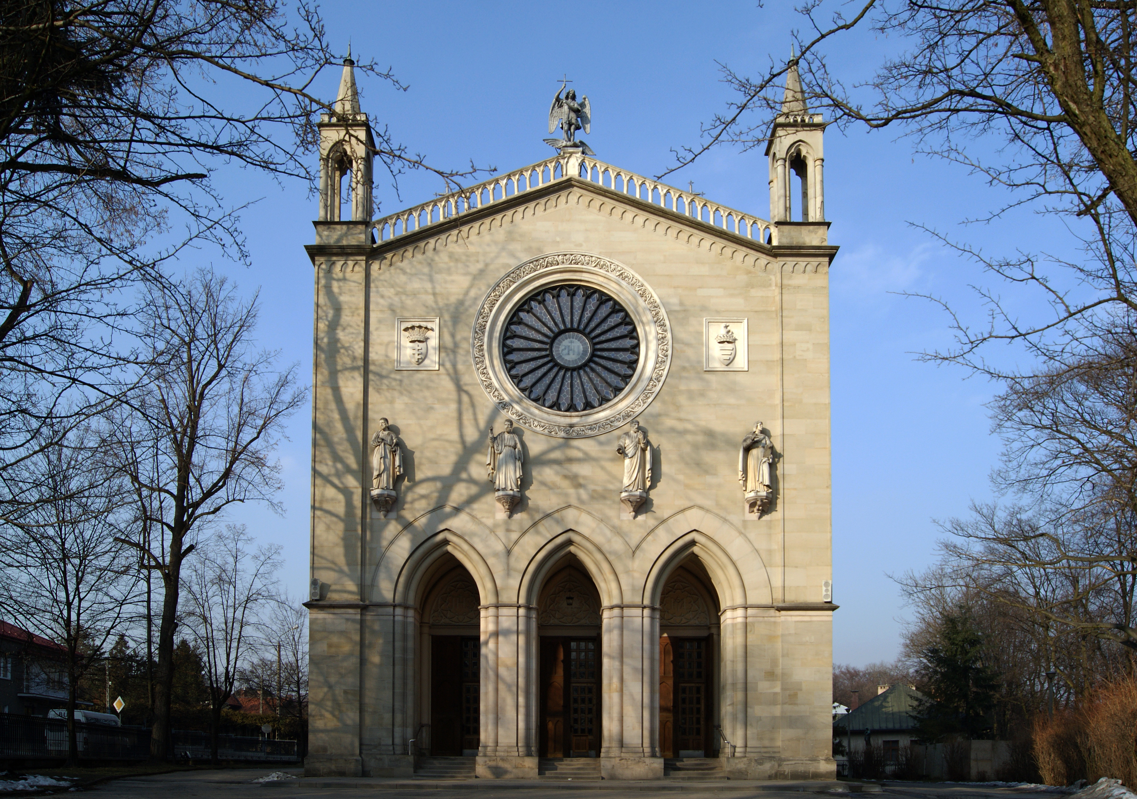 Church of St Martin of Tours , 1 Grunwaldzka street, City of Krzeszowice, Kraków County, Poland